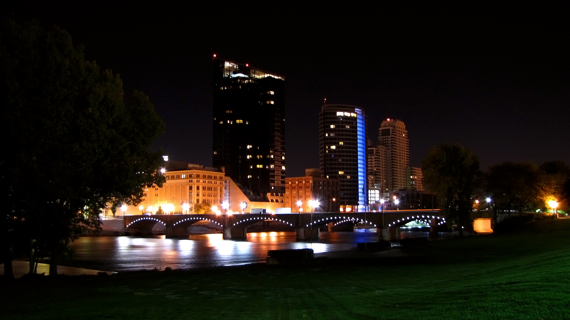 The skyline taken from the Gerald R. Ford Museum grounds on a nice fall evening. I am glad to have a new camera after my other was taken. The large size is in a dimention for HD.